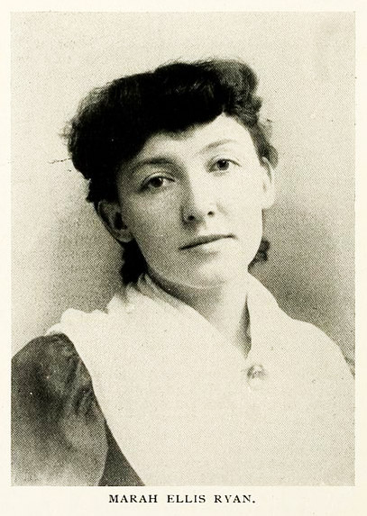 Portrait of American actress and author Marah Ellis Ryan (1860?–1934). From American Women: Fifteen Hundred Biographies with Over 1,400 Portraits, Frances E. Willard and Mary A. Livermore, editors. Mast, Crowell & Kirkpatrick, 1897 (revised edition from 1893), p. 628